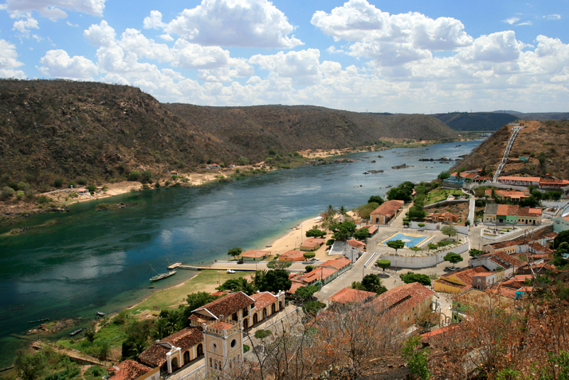 Overview of Brazilian city Piranhas (Alagoas).